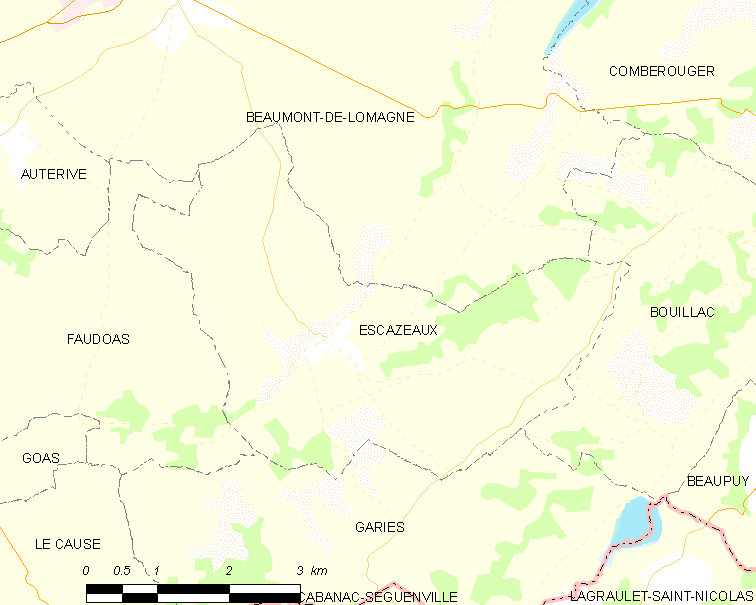 Map of French municipality Escazeaux